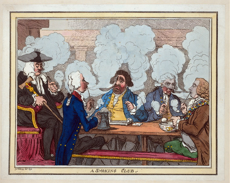 "A Smoking Club" - An illustration included in Frederick William Fairholt's Tobacco, its history and associations.